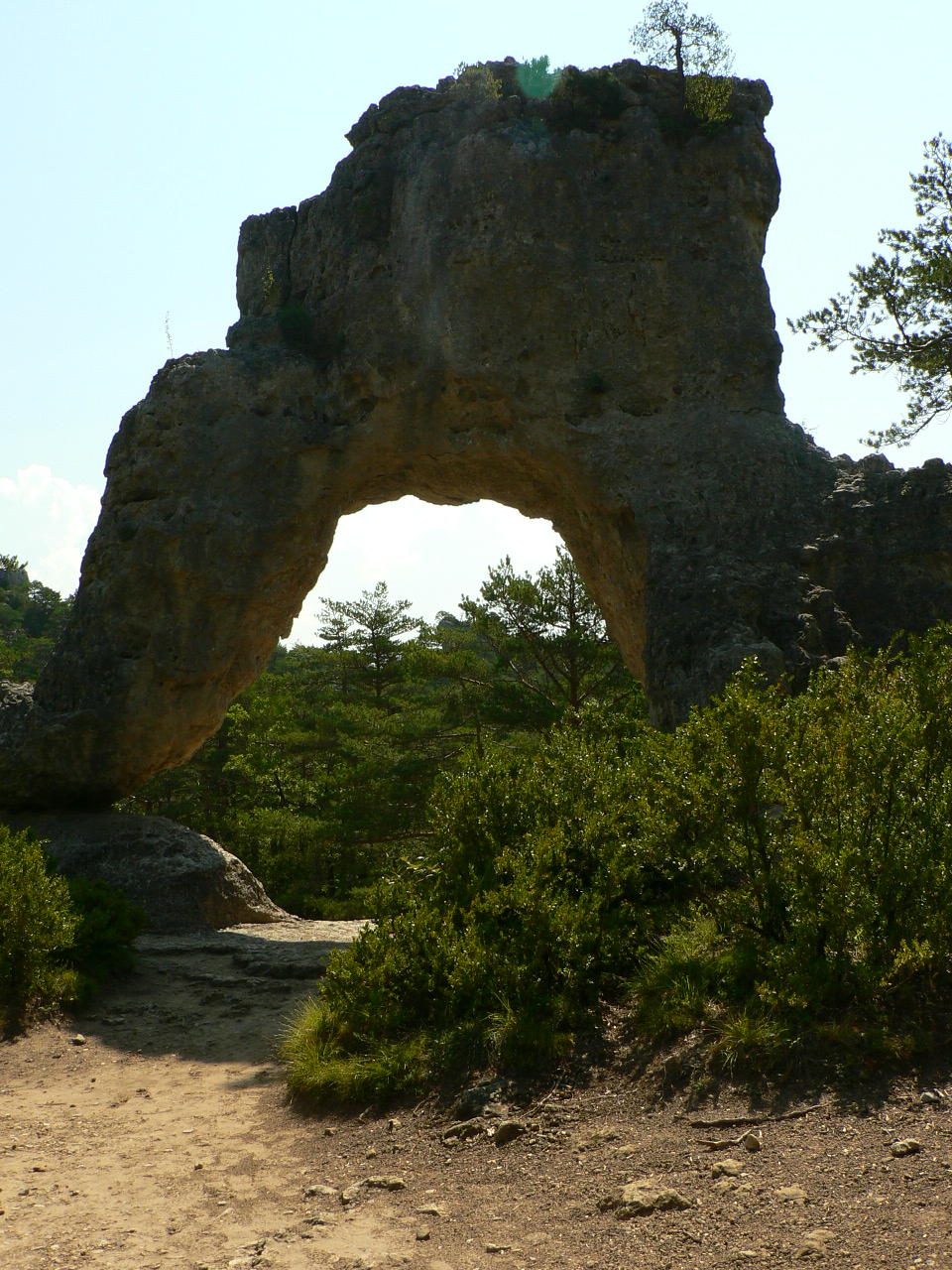 Porte de Mycène at Chaos de Montpellier-le-Vieux (Aveyron, France)